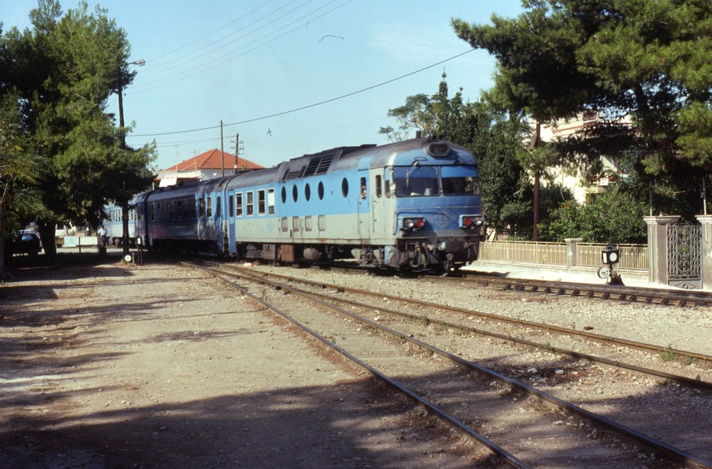 Several builds of Ganz Mavag DMU sets were built for OSE both for the narrow and standard gauge systems. Seen pulling into Diakopto on 1 November 1992 is set AA6454, a 4-car version used on longer distance trains.